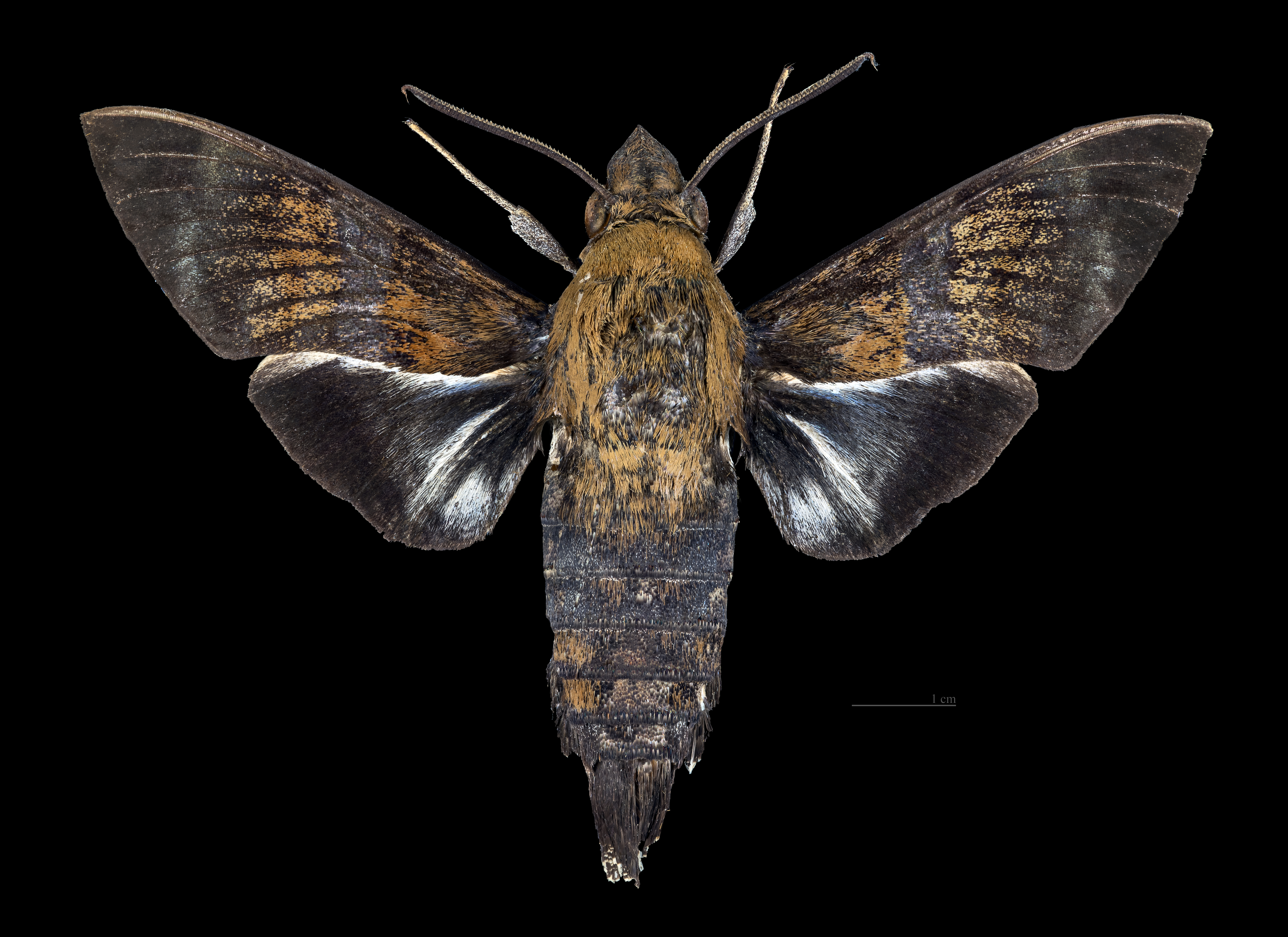 Macroglossum tenebrosa - Dorsal side Collection of the Mathematician Laurent Schwartz